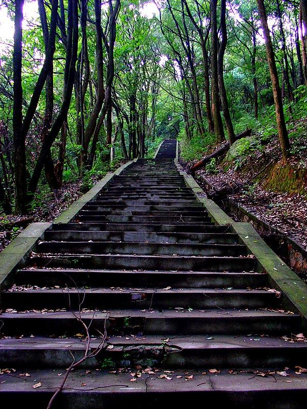 scene of HUST